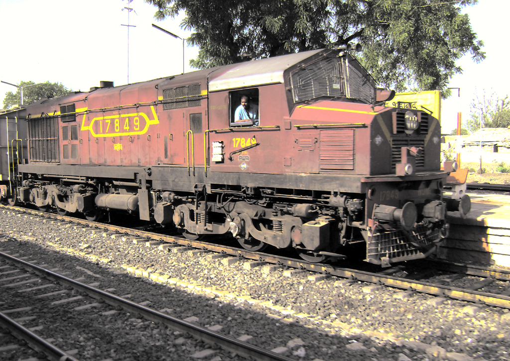 WDM-2 Diesel loco of PUNE at Shahbad